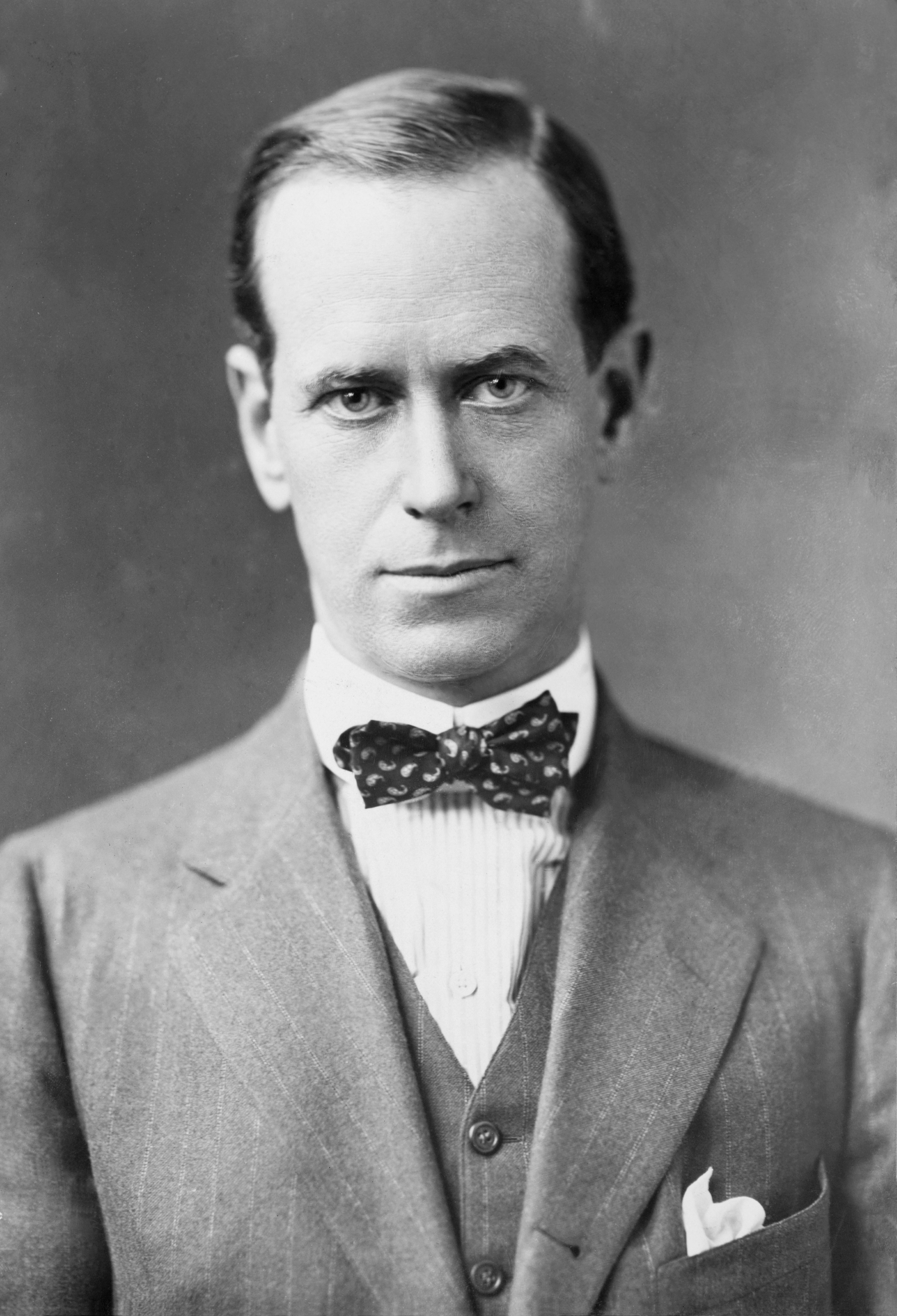 Title: "Rep. Joseph Medill McCormick, head-and-shoulders portrait, facing front" Joseph Medill McCormick (1877–1925), was a member of the influential Chicago McCormick family as well as the Medill family. He was elected to the Illinois House of Representatives in 1912 (when this photo was taken), US House in 1917, and US Senate in 1919. After losing the nomination in 1925, he comitted suicide.